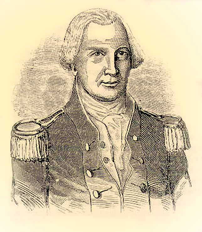 Colonel Daniel Brodhead